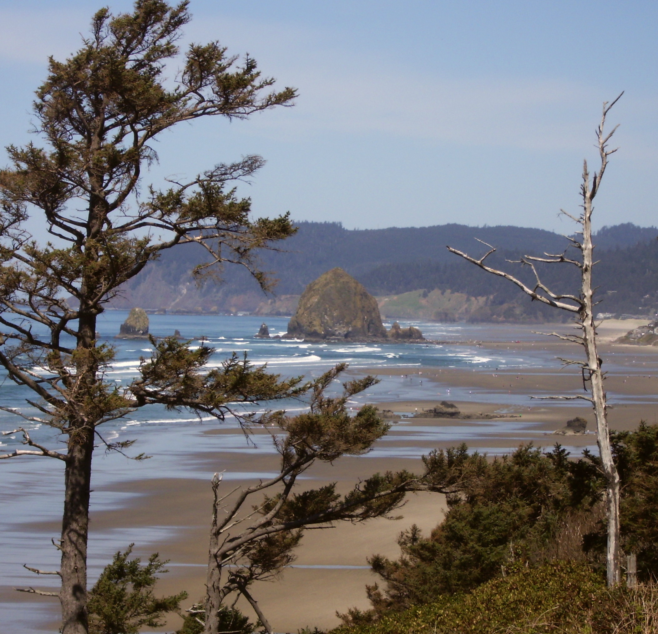 Haystack Rock as seen from Hwy 101 south of Cannon Beach, part of Oregon Islands National Wildlife Refuge.